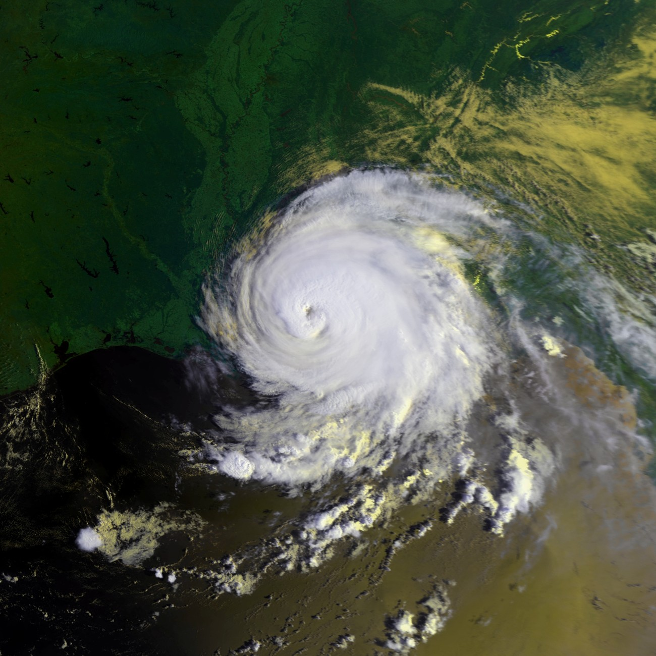 Hurricane Elena from NOAA 8. Inventory ID: NSS.HRPT.NE.D85245.S1411.E1422.B1263737